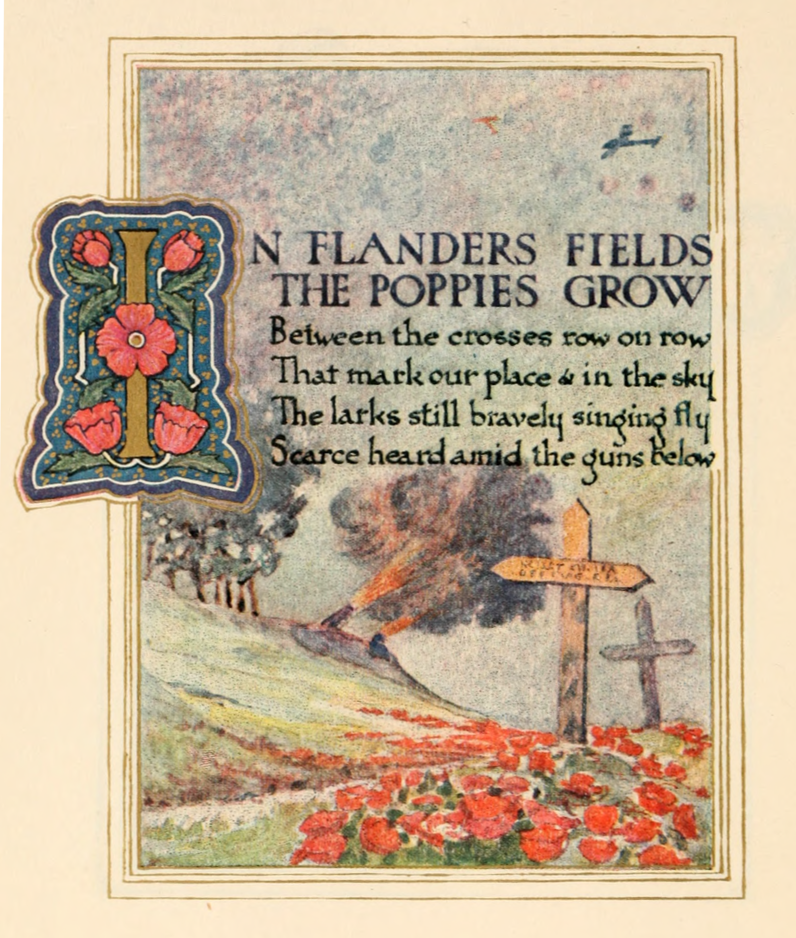 Page 1 of the main content from a limited edition book containing an illustrated poem, In Flanders Fields, 1921